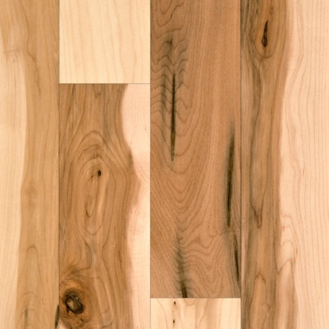 Maple wood grain explained (Sapwood and heartwood on the same) maple wood floor